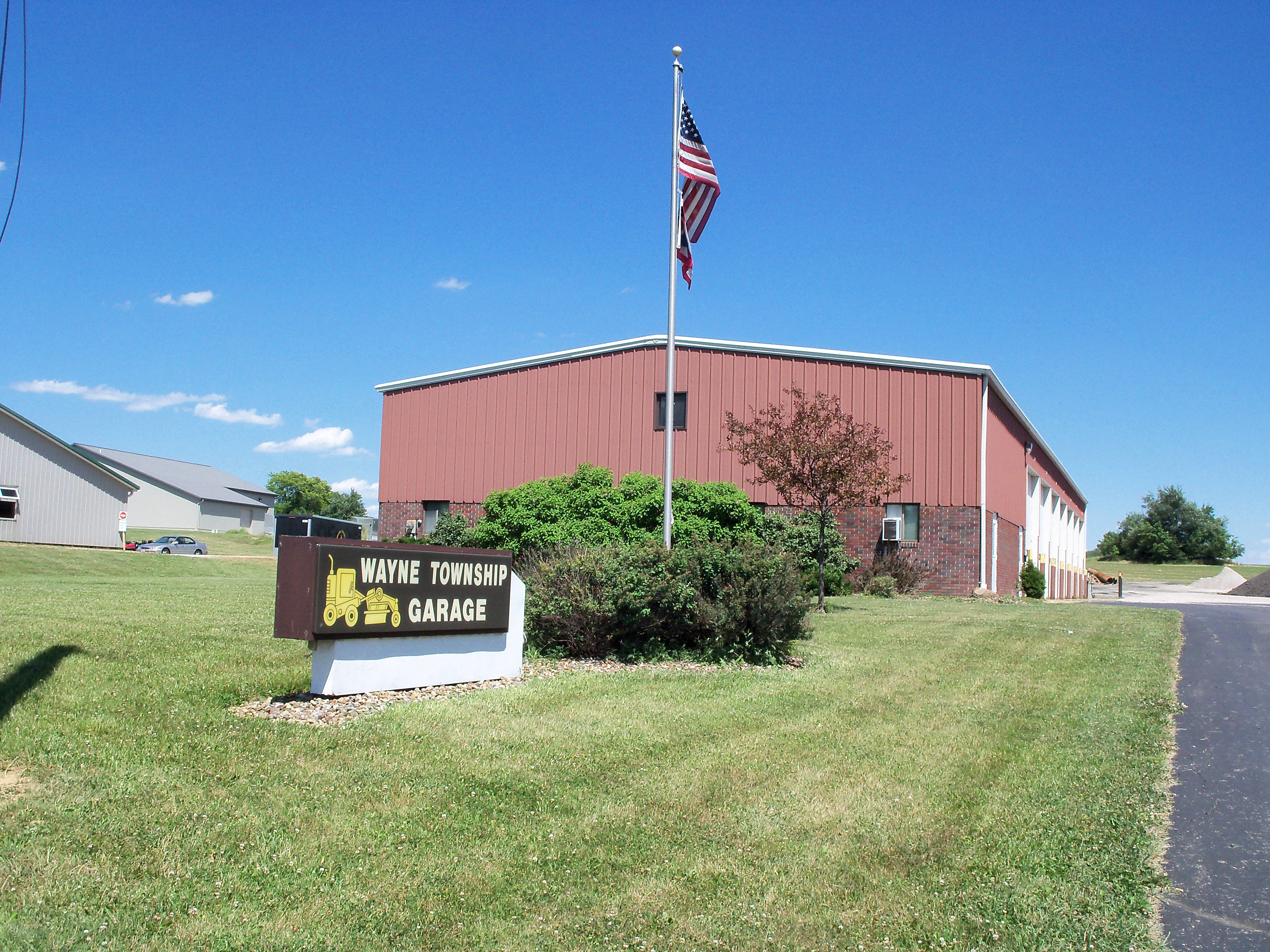 Wayne Township, Wayne County, Ohio Township Meeting Hall and garage, just outside Wooster, Ohio